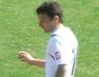 Photo made by User:Razvanflorian.